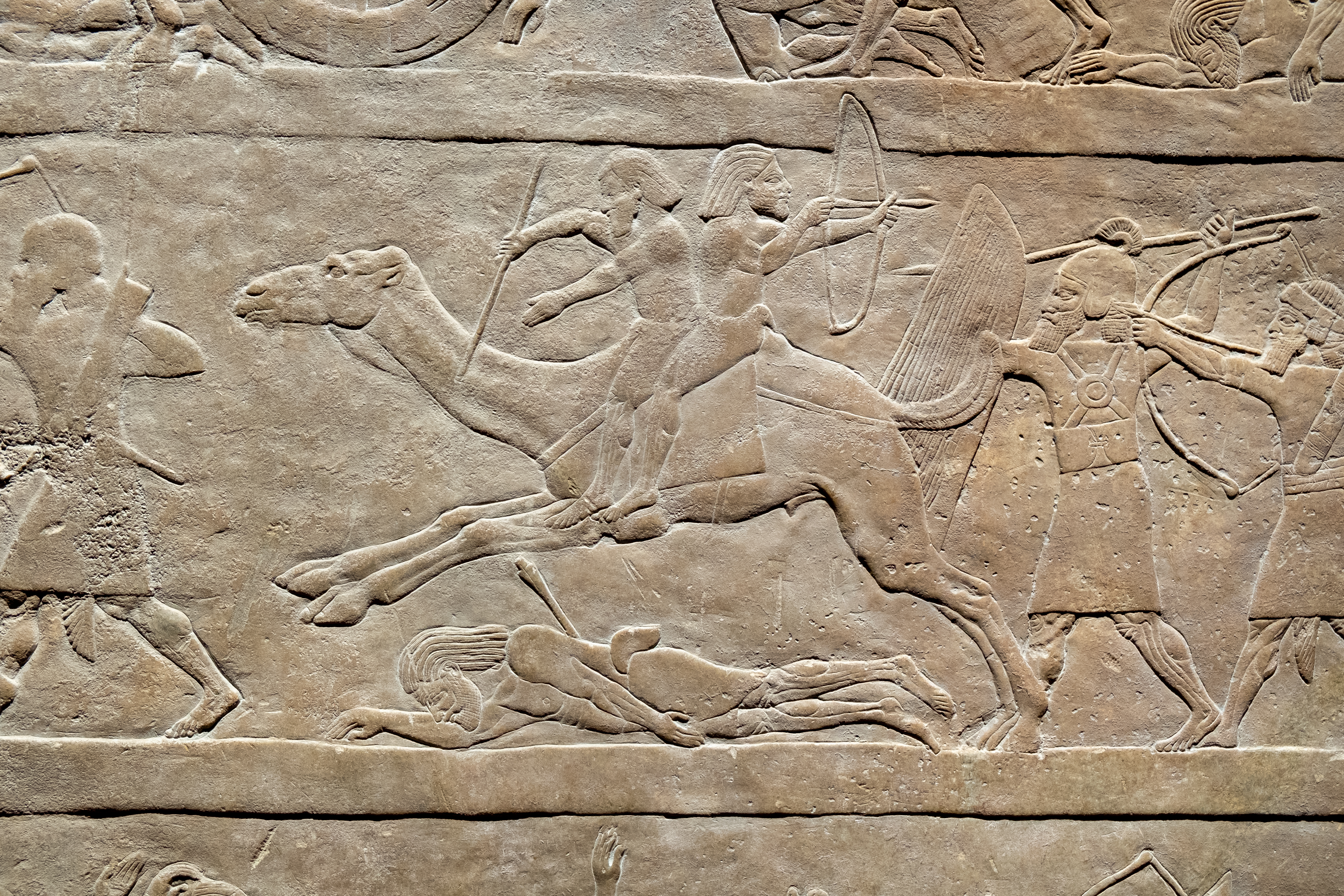 2018 Ashurbanipal - Fighting Arabians on camels British Museum, London